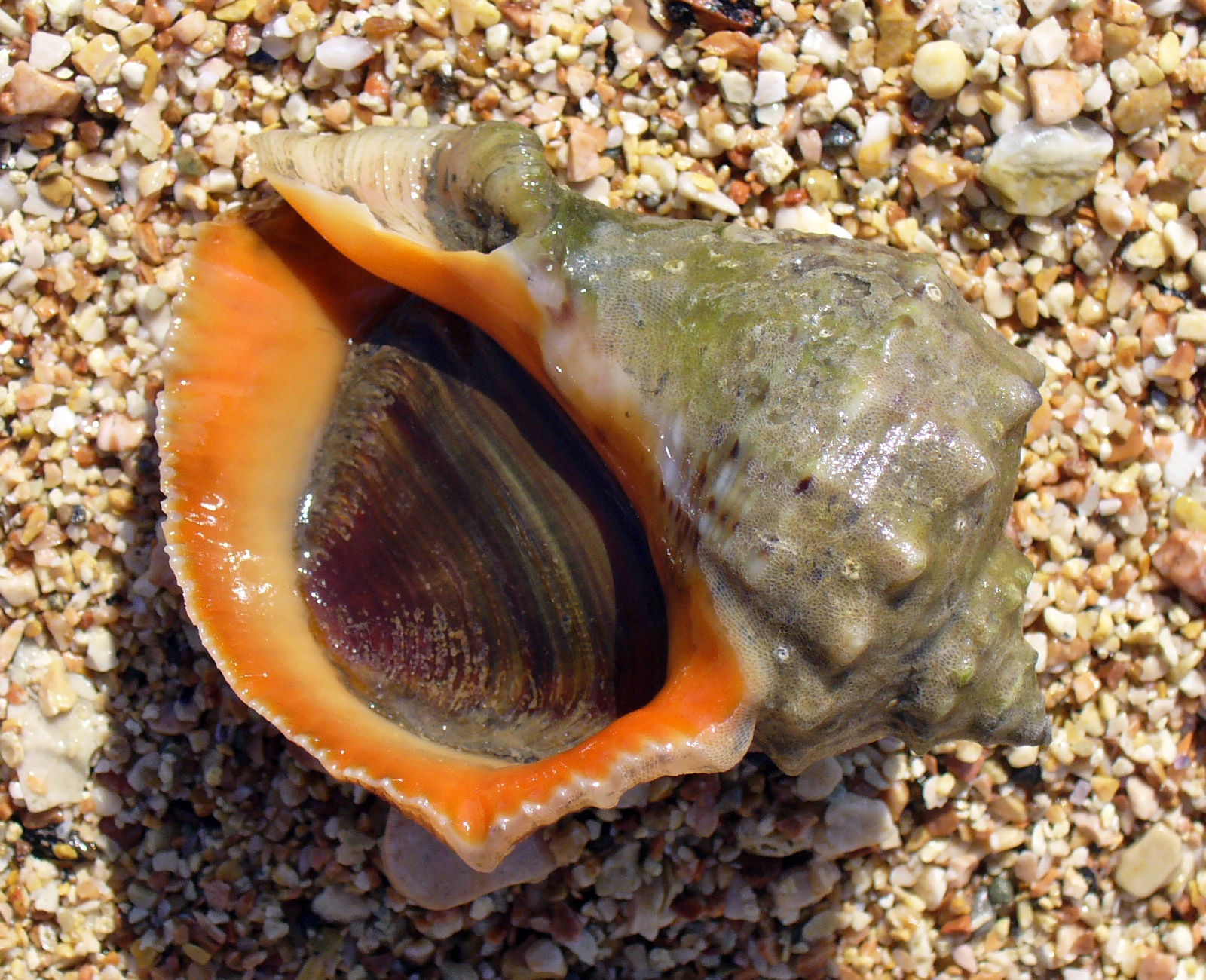 Veined rapa whelk (Rapana venosa). The Black Sea, 2008